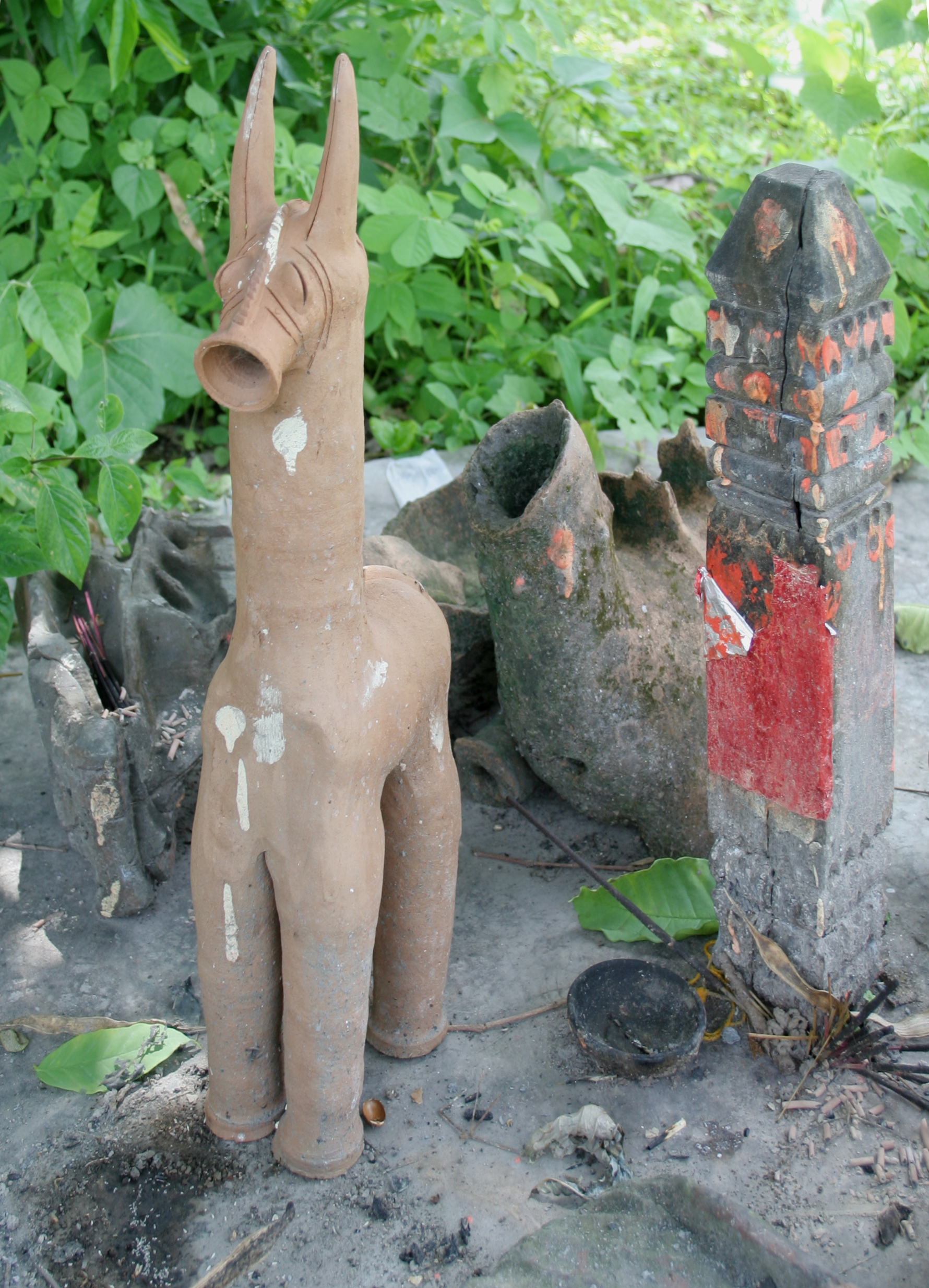 Place of worship in a village, Udaipur district, Rajasthan, India.